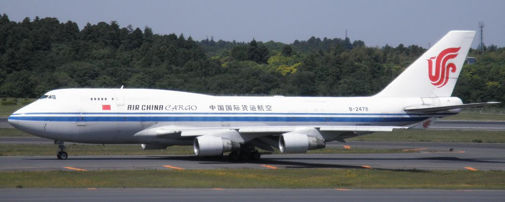 Air China B747-400BDSF